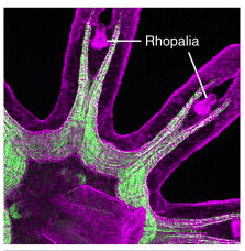 Neuromuscular system of Aurelia sp.1 (Scyphozoa) ephyra stained with phalloidin (green) and antibodies against tyrosinated tubulin (magenta).